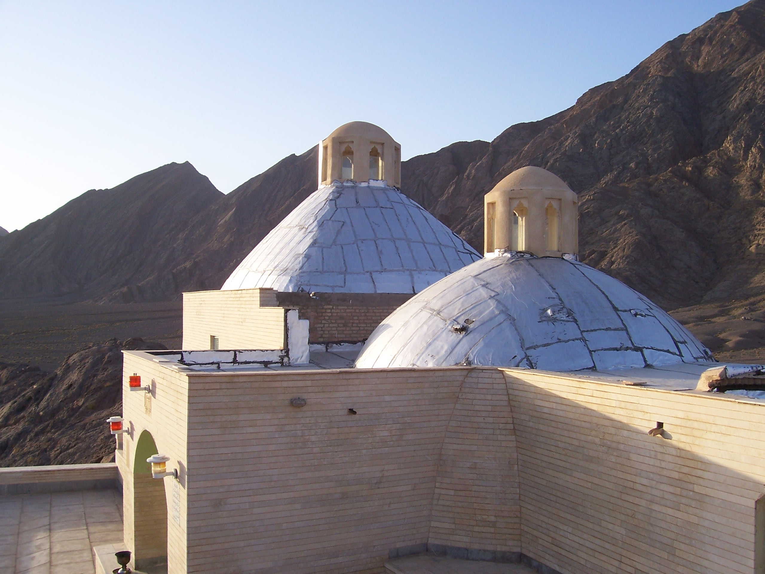 Pir-e Herisht, a Zoroastrian sacred site near Ardekan, Yazd Province, Iran